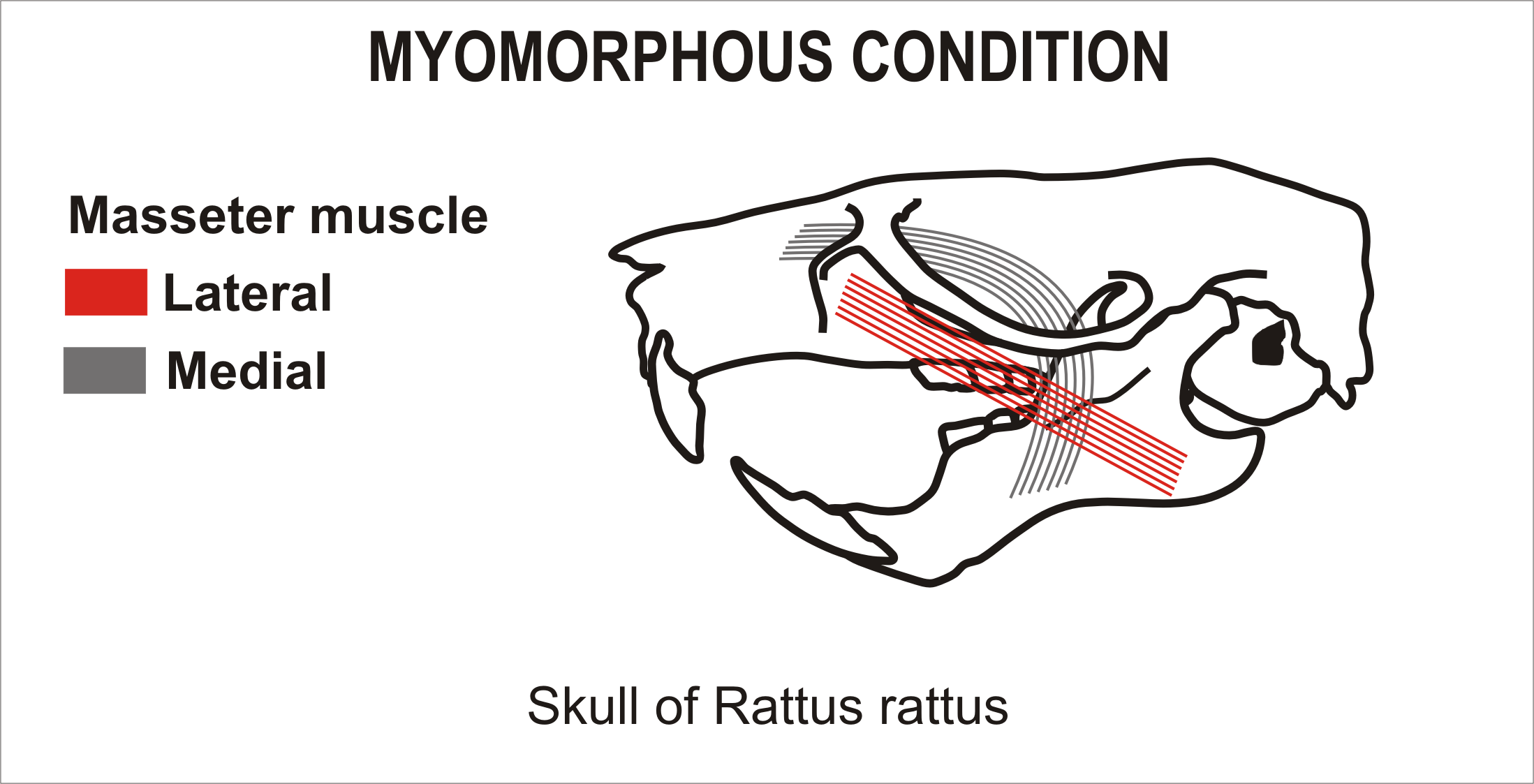 According to Romer, 1945